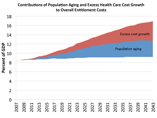 A graph showing the contributions of population aging and excess health care cost growth to overall entitlement costs (2013).